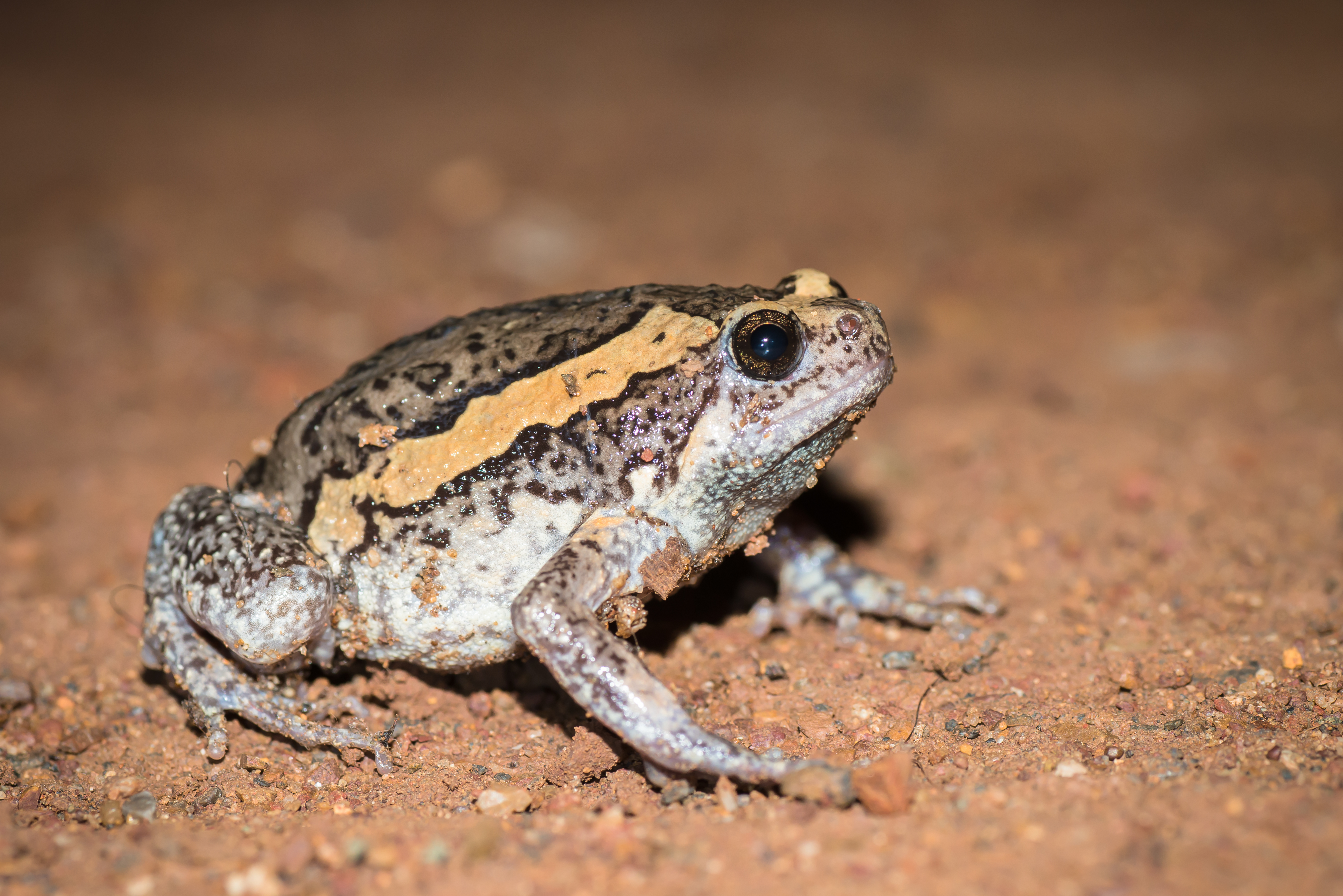 This photo is published under Creative Commons Attribution-Share-Alike Licence, means you are free to use this photo with attribution under same licence. When giving attribution, please use following; Owner: Thai National Parks Link